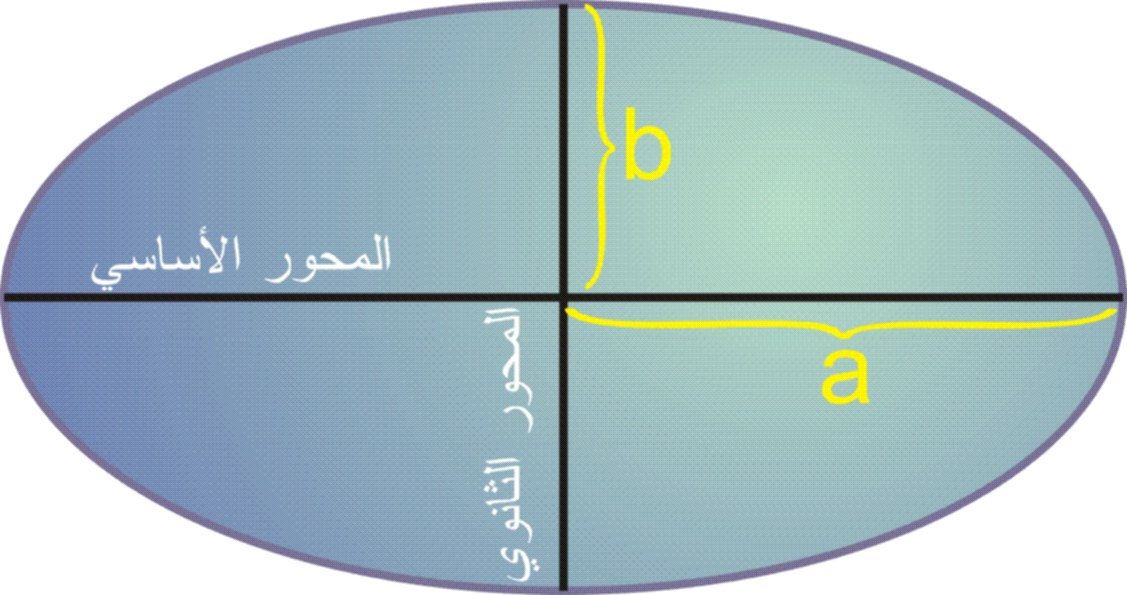 The Axis of a sphroid in Arabic